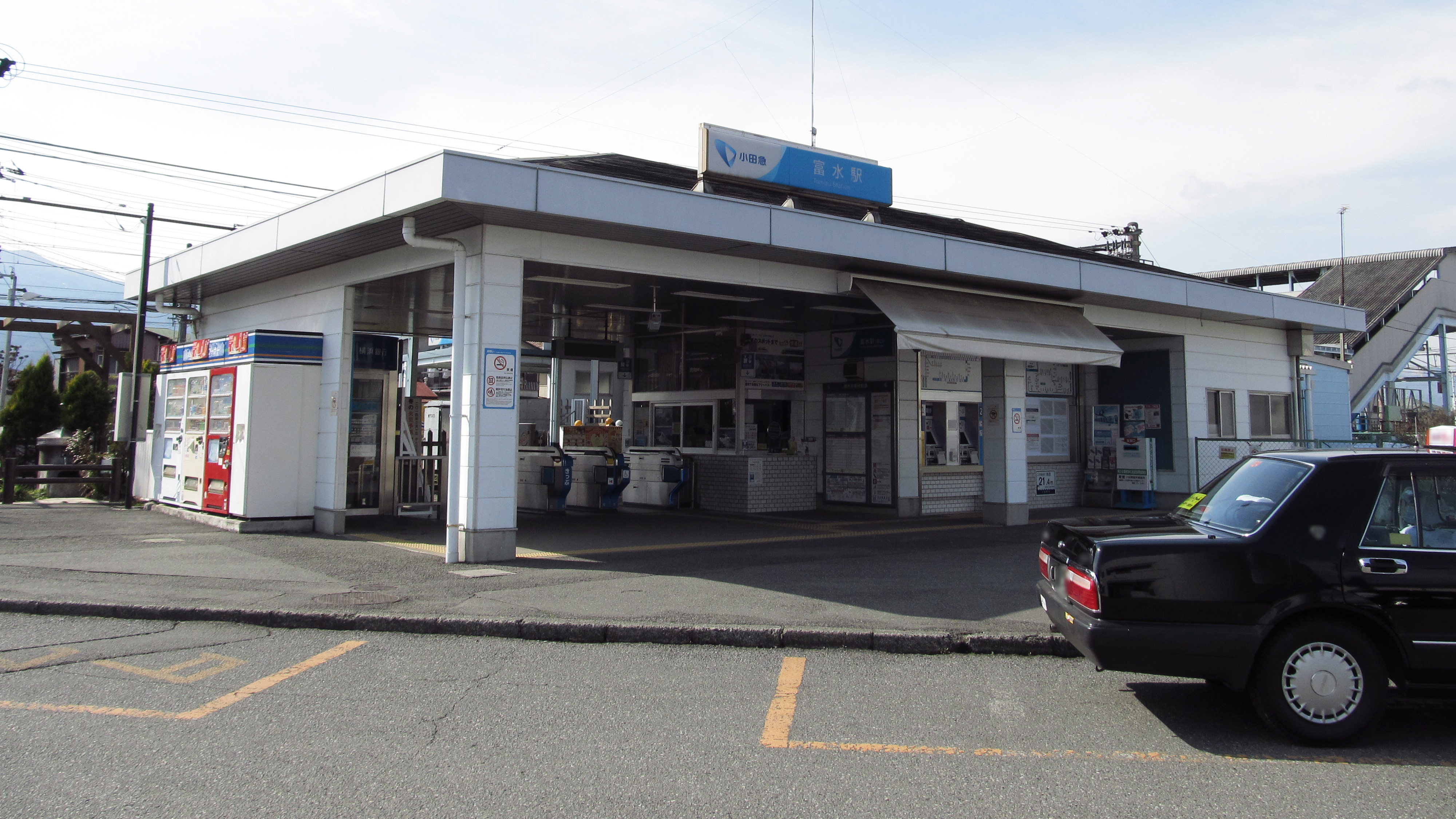 The east-side building of Tomizu Station on the Odakyū Electric Railway Odawara Line in Odawara city, Kanagawa, Japan